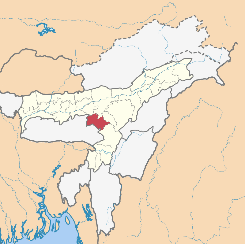 Assam district locator map West Karbi Anglong